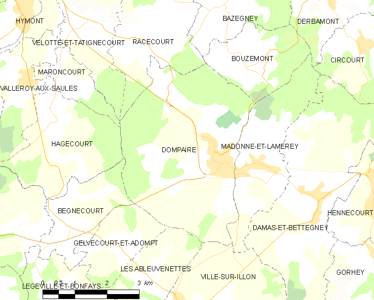 Map of French municipality Dompaire